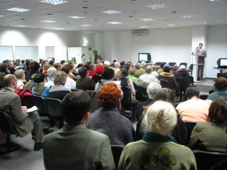 зал царства свидетелей иеговы